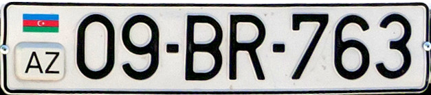 Vehicle registration plate from Azerbaijan, as issued since 2011